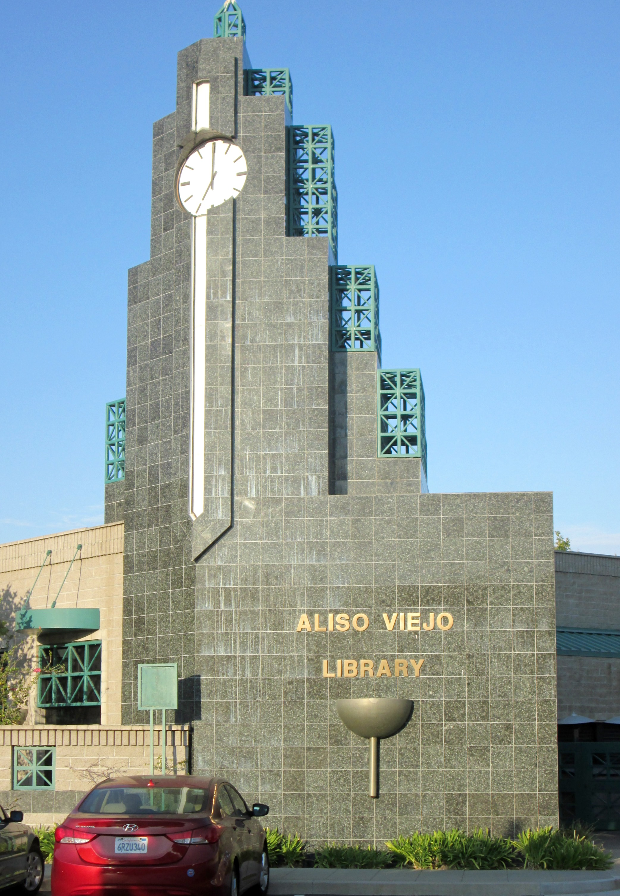 The Aliso Viejo Branch of the Orange County Public Library is located at 1 Journey.